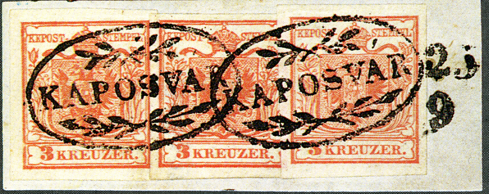 Stamps of KK Austria, first issue 1850, 3 kreuzer in triple. Oval cancellation Kaposvár (Hungary) Mueller type ROo-f) (85x8P).